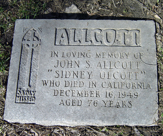 Sidney Olcott's grave in Park Lawn Cemetery, in Toronto, Ontario.